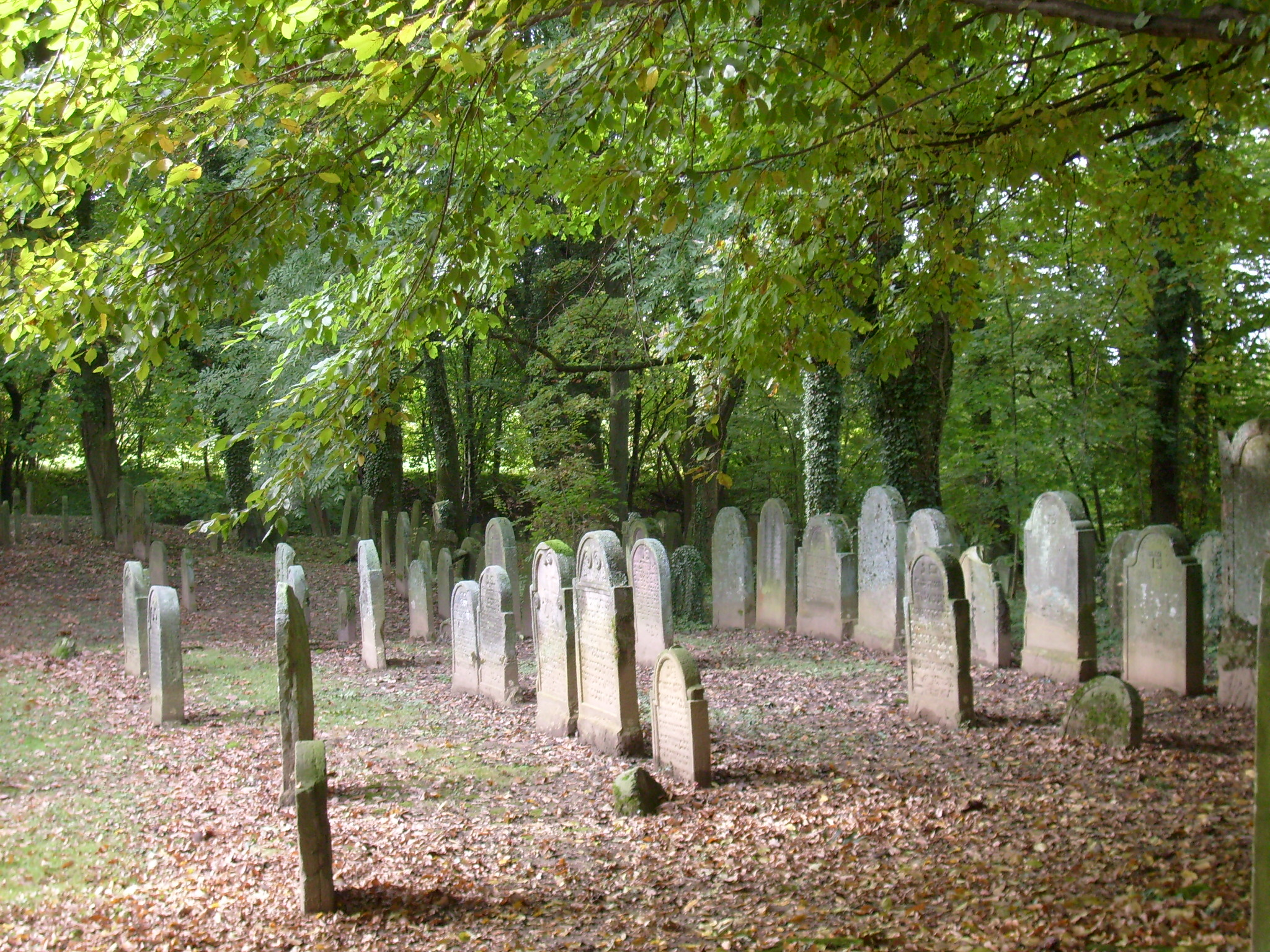 Stones at the Kuppenheim Jewish cemetery